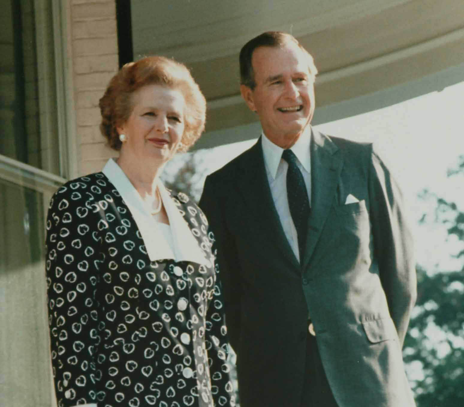 Margaret Thatcher with George H. W. Bush